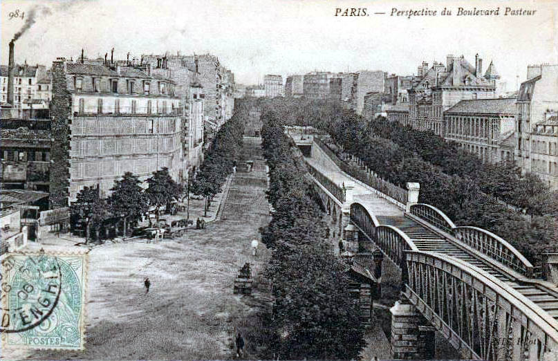 Paris - View of Boulevard Pasteur. Old postcard.